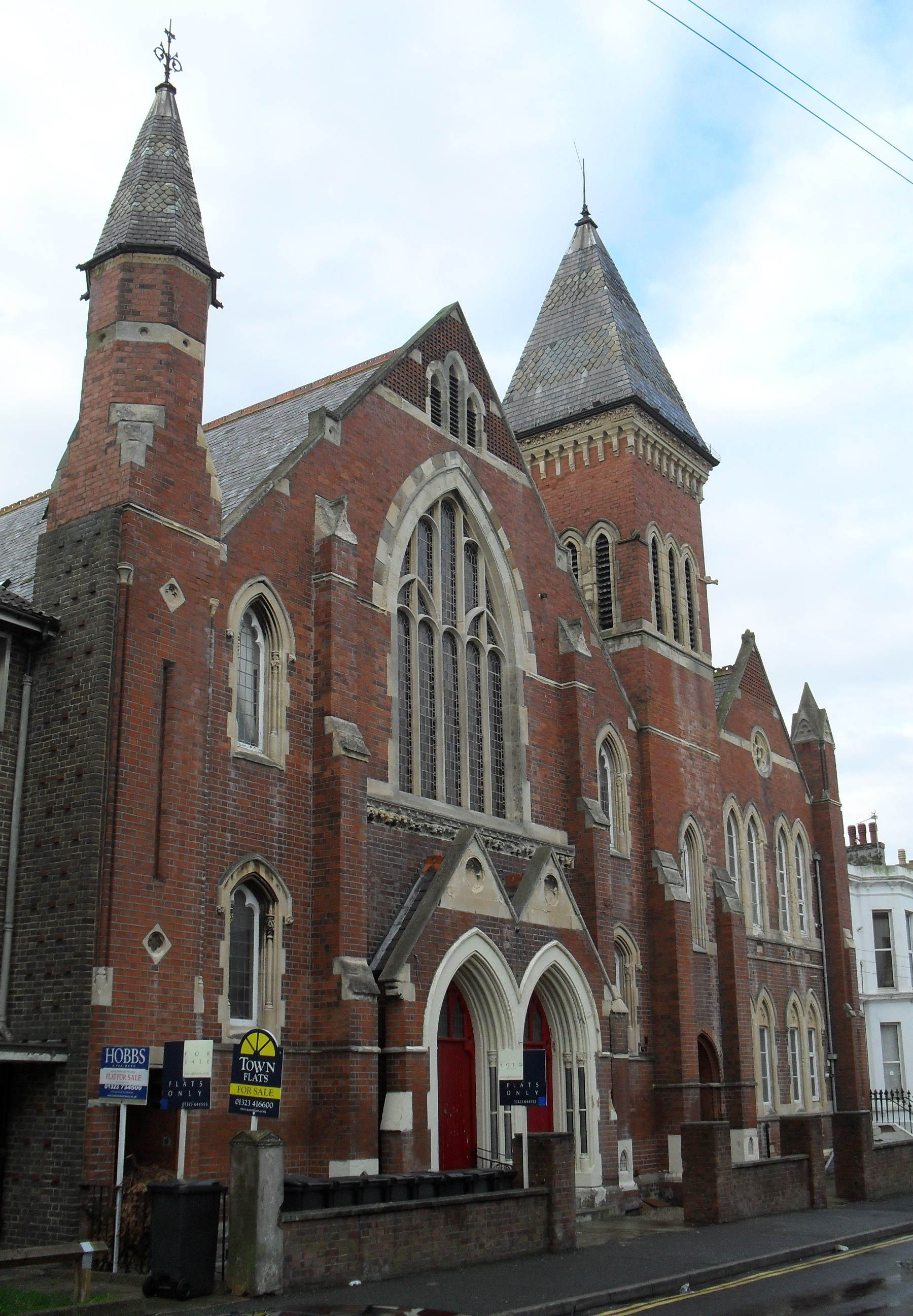 Former Baptist Church, Ceylon Place, Eastbourne, East Sussex, England. Built in 1885; now flats.